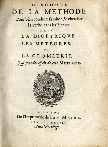 Title page of the first edition of René Descartes' Discourse on Method